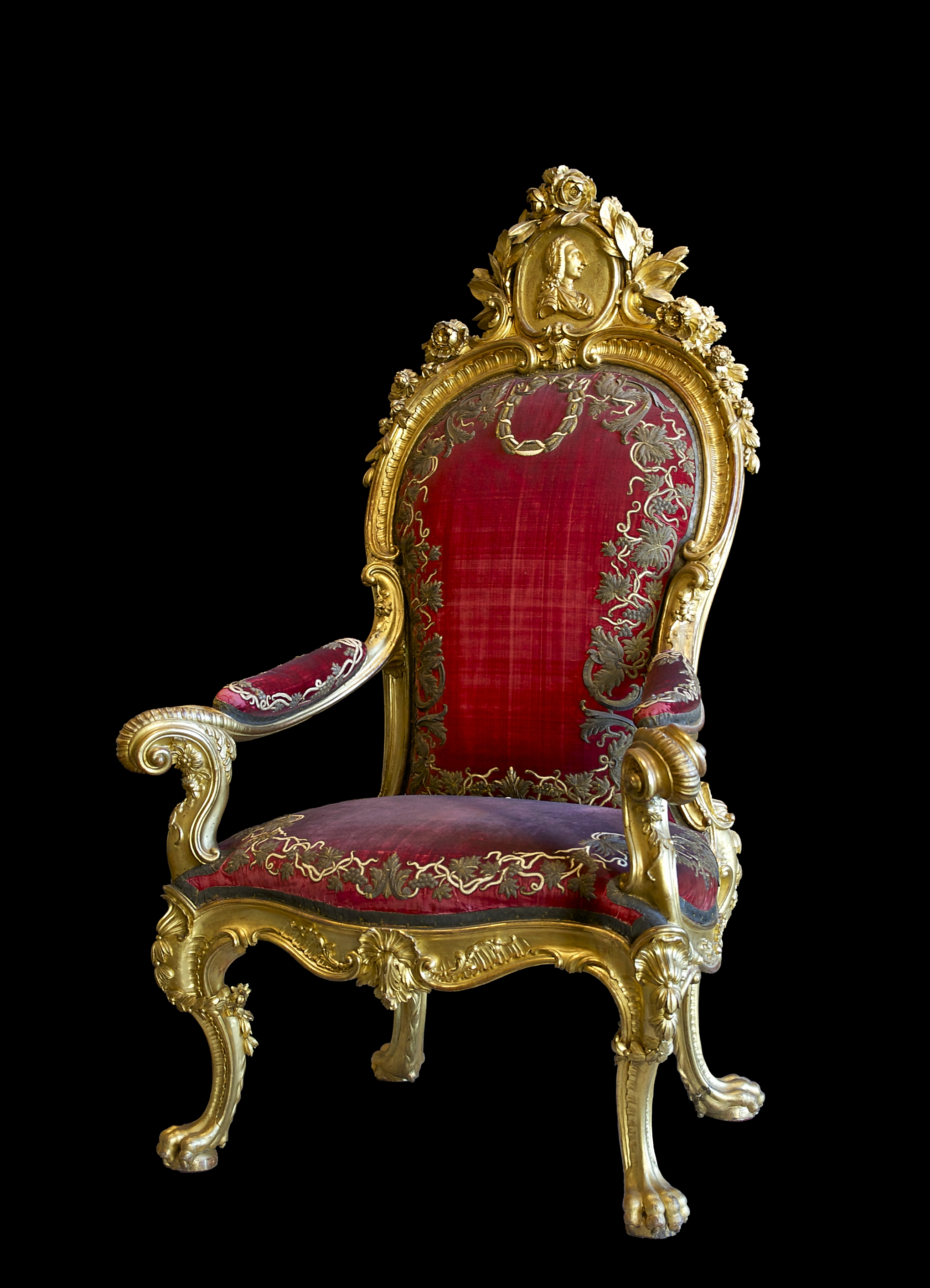 Throne made for King Charles III of Spain, whose profile features in the medallion atop the backrest. Since the reign of King Alfonso XII (1874-1885), every Spanish sovereign has had a copy of this original made, incorporating his own portrait. Today two identical thrones are in the throne room of the Royal Palace in Madrid: one with the effigy of King Don Juan Carlos Ist, the other with that of Queen Doña Sofia. Sculpted wood, gilded in Madrid before 1772. Madrid, Patrimonio Nacional, Palacio Real, El Palacio de San Ildefonso. Photo taken during an exhibition of various thrones, in Château de Versailles, France.